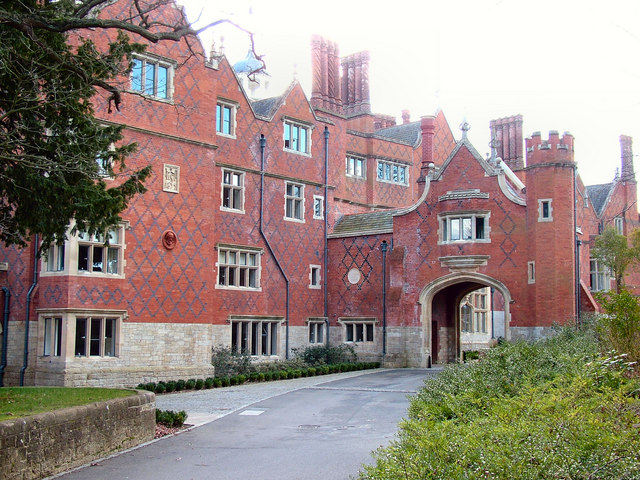 Goldings. The Old Barnado's School for boys, a lot of whom went into the printing profession.It is now being marketed as luxury homes and flats.